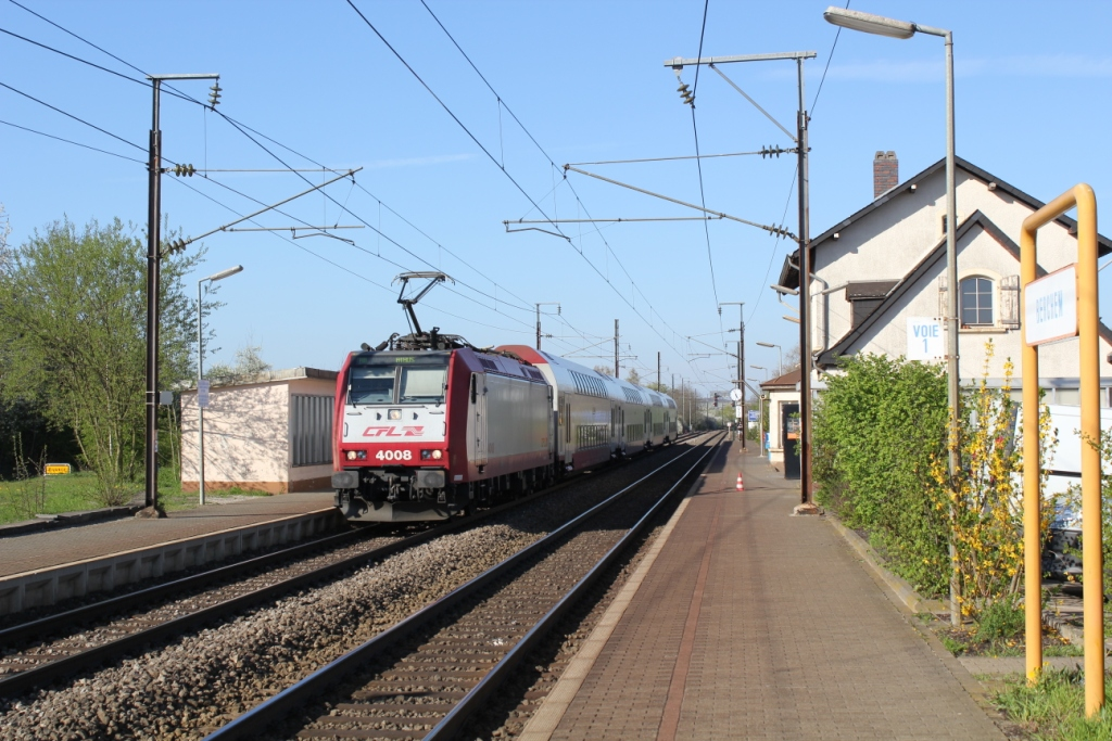 CFL 4008 with a passengers train in Berchem.